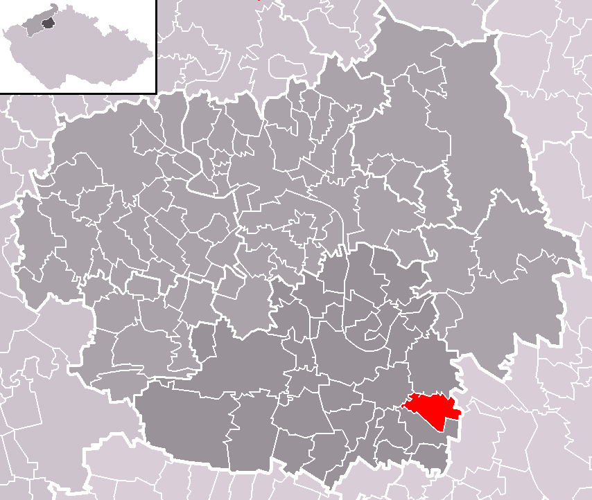 Location of Libkovice pod Řípem municipality within Litoměřice District and administrative area of Roudnice nad Labem as a Municipality with Extended Competence.